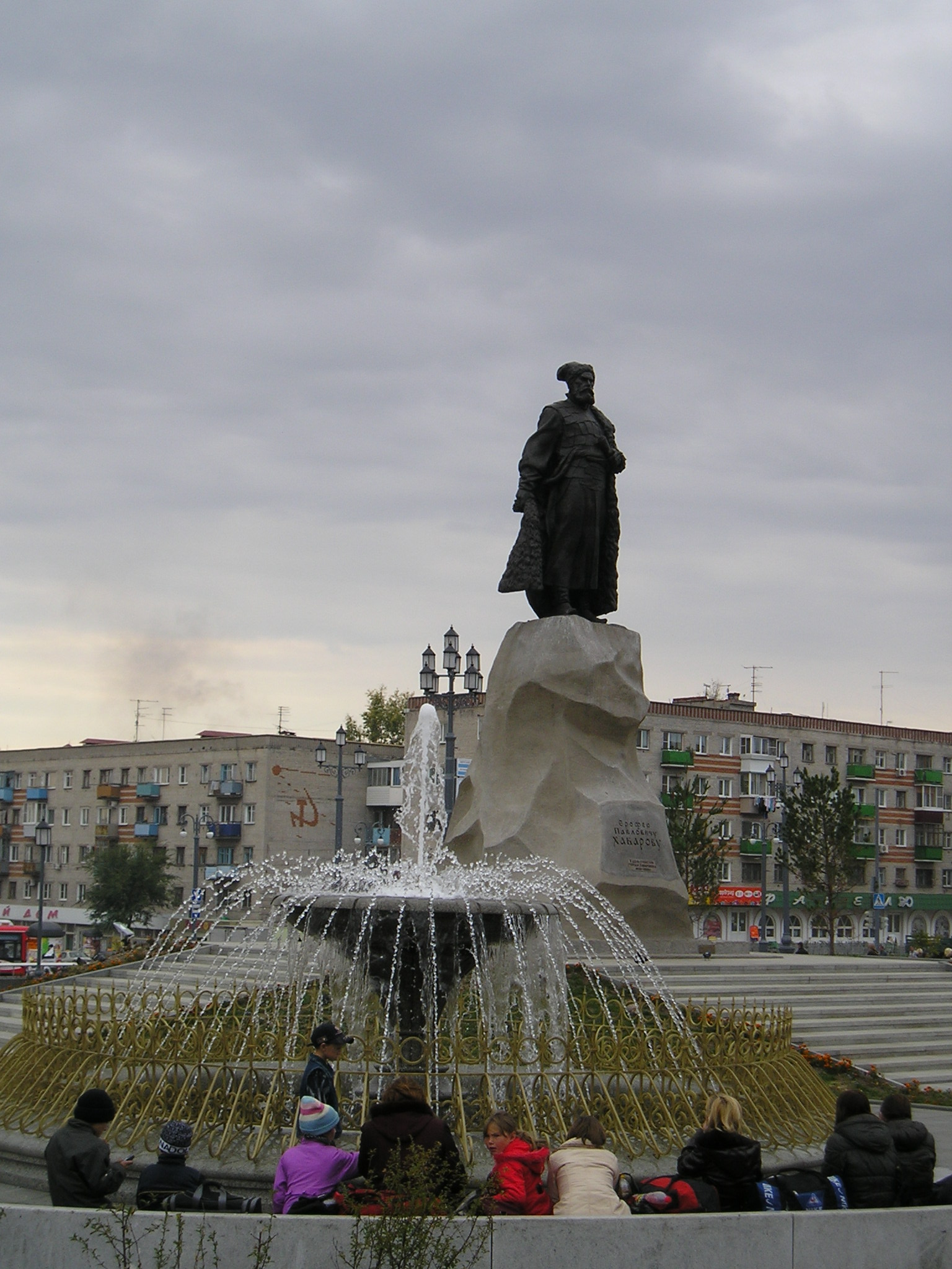 Monument to Khabarov on railway station square in Khabarovsk